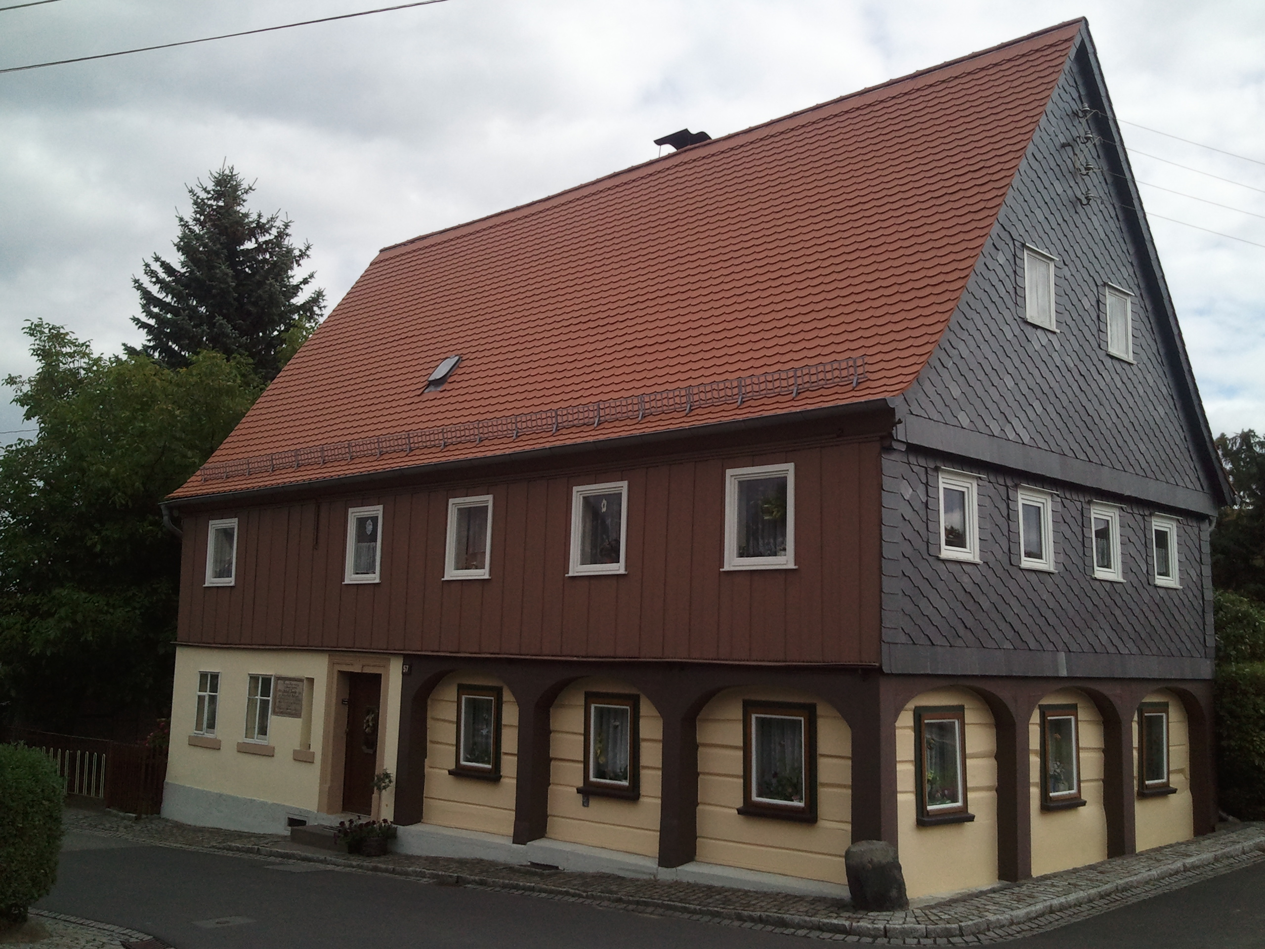 Birthplace of Friedrich Schneider in Waltersdorf (Großschönau) Dorfstraße 57